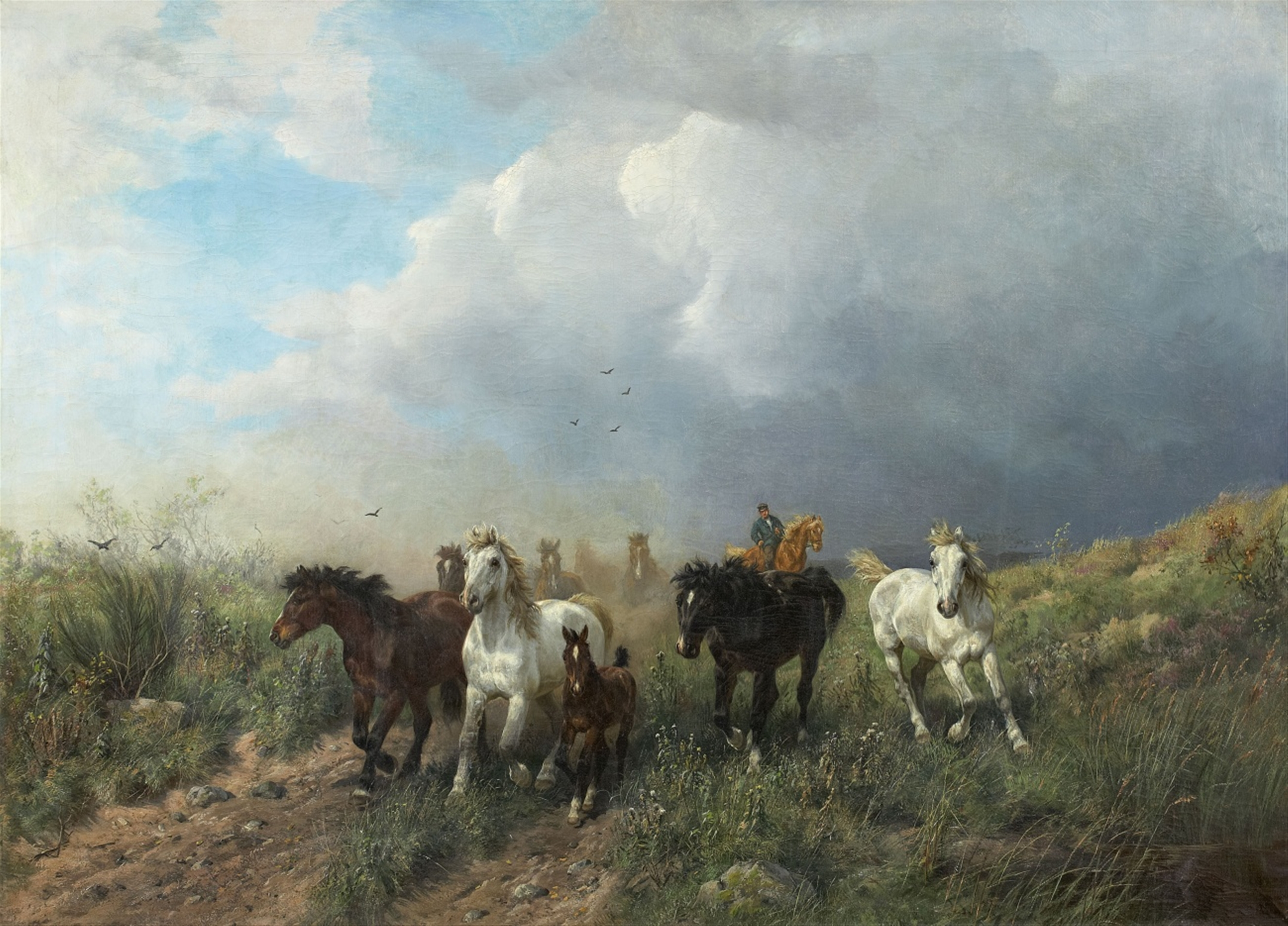 Horses in a Meadow Landscape by Ludwig Benno Fay, oil on canvas, 80 x 110 cm